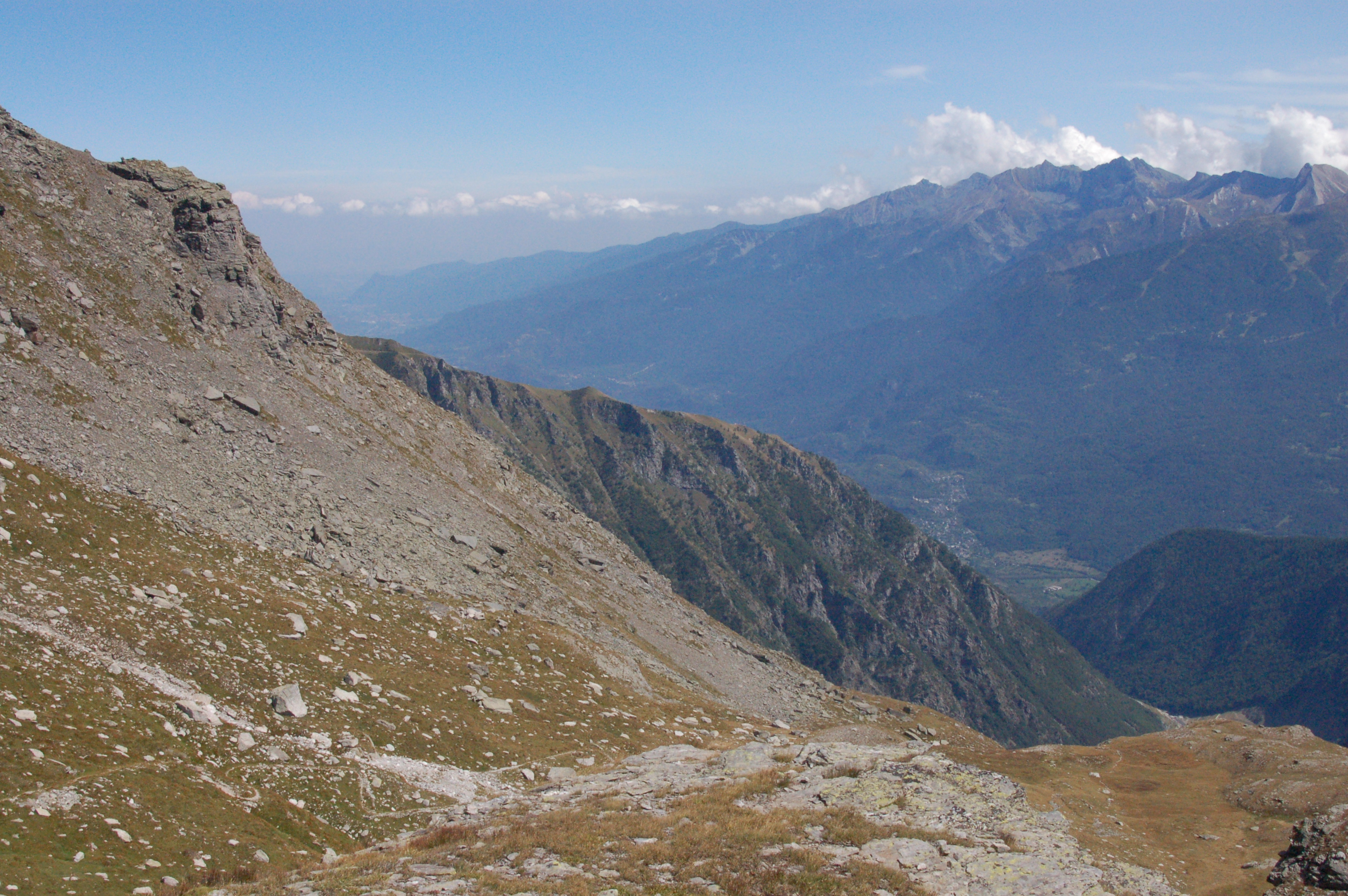 Col du Clapier, Alps. Torino visible at upper left. Photo taken as part of field work on the Stanford Alpine Archeology Project 2006 under the direction of Dr. Patrick Hunt.